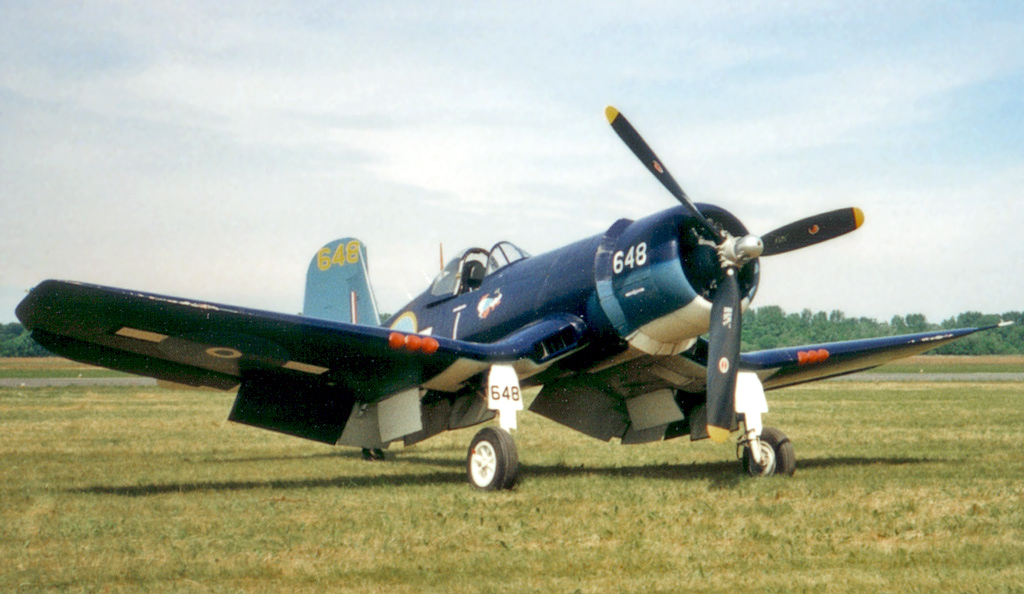 Beschreibung: Corsair Model : FG-1D (Goodyear built, equal to the F4U-1D) from which the rocket launcher stubs and pylons have been taken off, wearing the colours of the Royal New Zealand Air Force (RNZAF). Notice the clipped wing tips, a characteristic of the carried British Corsairs; Built number : 88391; Wartime registration : NZ5648; Current civil registration : NZCOR* Owner : The Old Stick and Rudder Company; Place : This image was improved or created by the Wikigraphists of the Graphic Lab (fr). You can propose images to clean up, improve, create or translate as well.